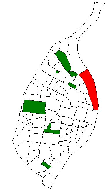 Map of St. Louis Neighborhood #64 (Near North Riverfront)